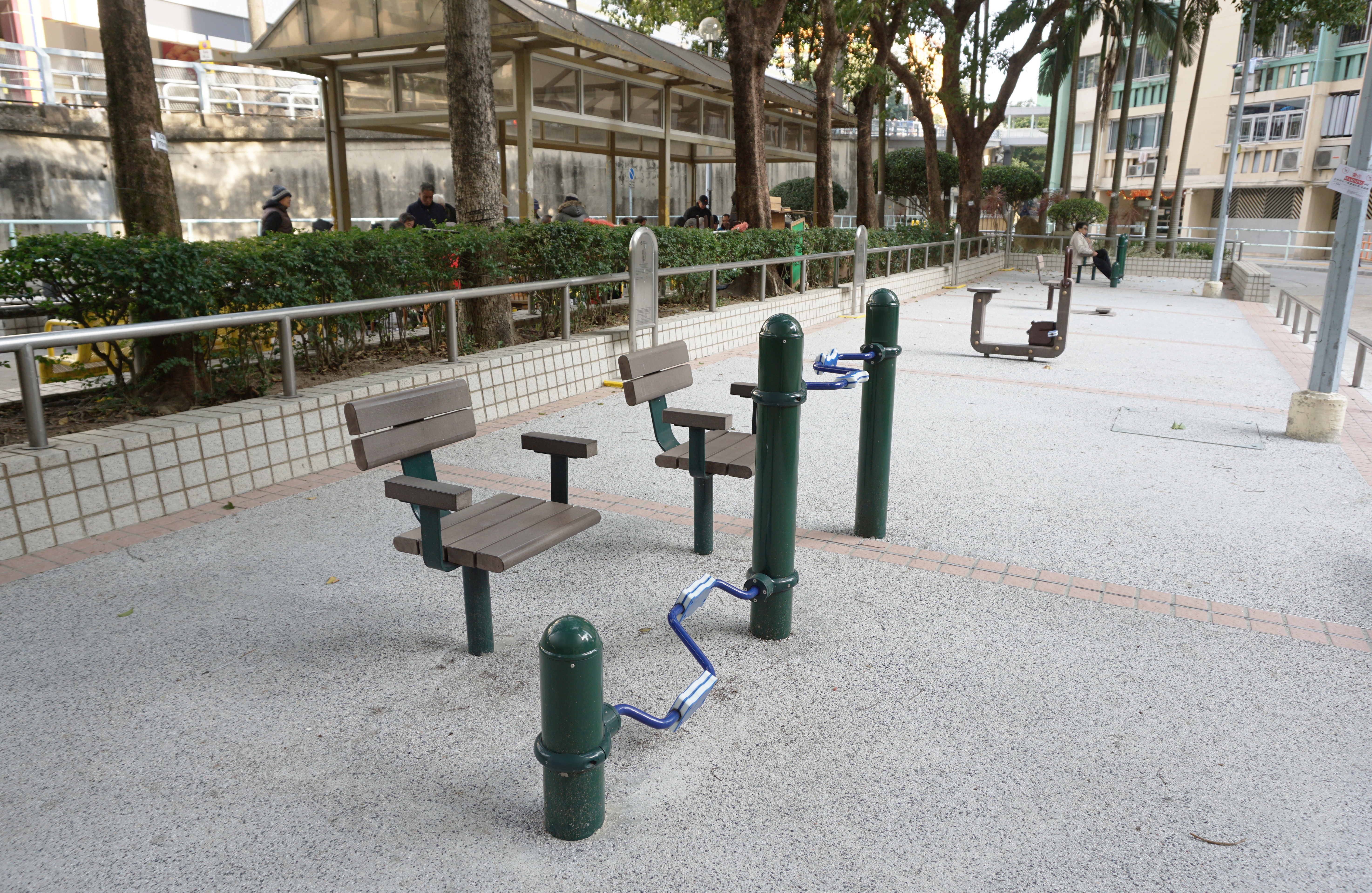 Oi Man Estate in Ho Man Tin, Hong Kong.